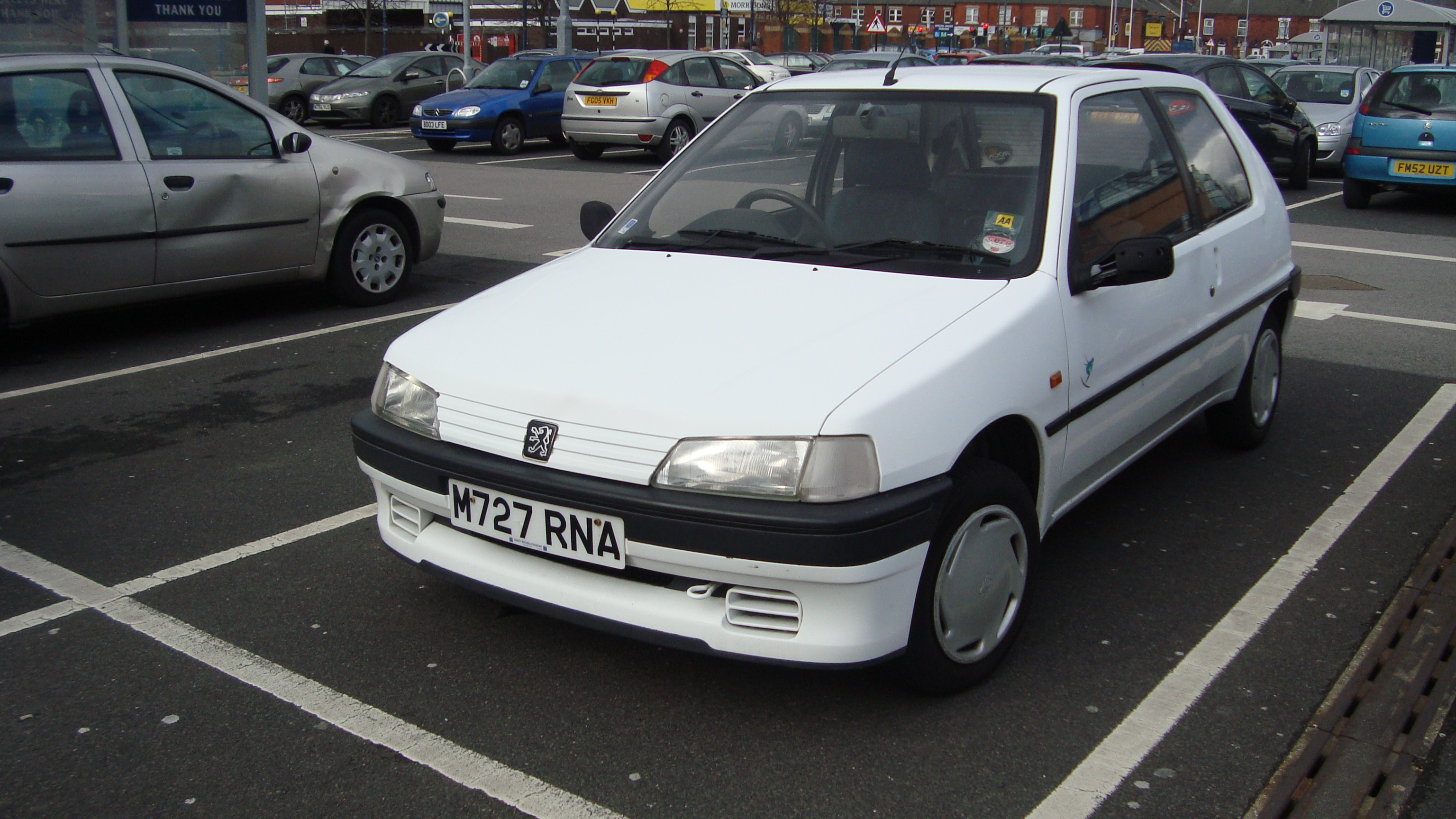 Really tidy little car such a shame that the passenger door mirror cover was missing